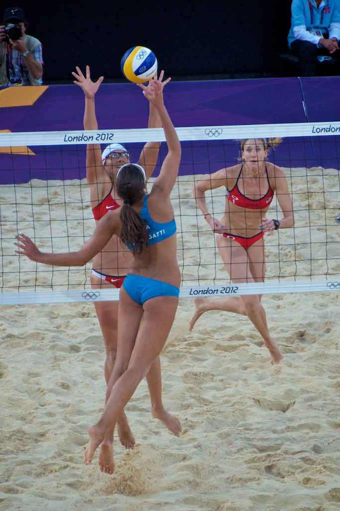 Quarter final USA vs Italy - Marta Menegatti (ITA, blue) - Kerri Walsh Jennings and Misty May-Treanor (USA, red)